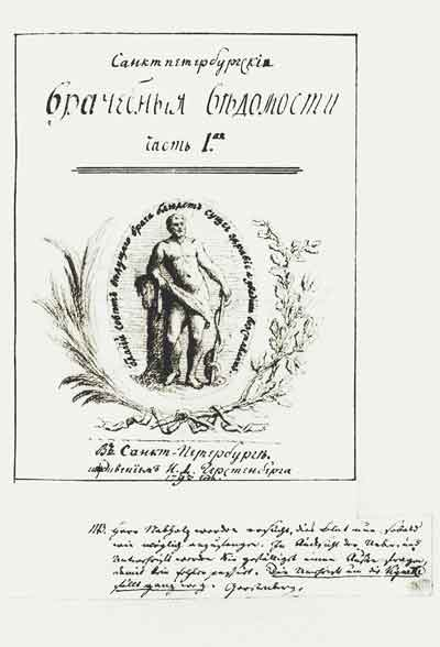 The cover of magazine SanktPeterburgskie Vrachebnie vedomosty, 1793